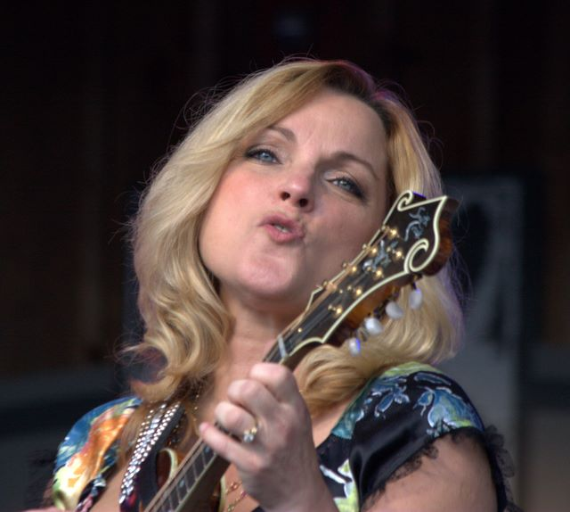 Rhonda Vincent on the Watson Stage, MerleFest, 2010. Photo by Forrest L. Smith, III.